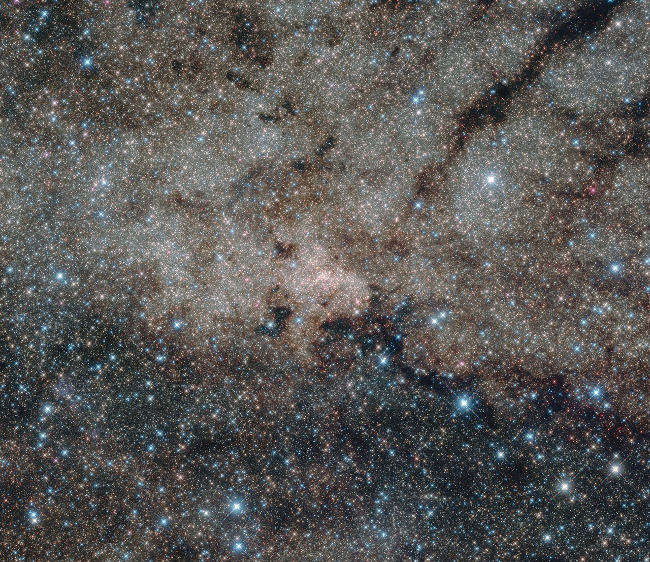 This infrared image from the NASA/ESA Hubble Space Telescope shows the centre of the Milky Way, 27 000 light-years away from Earth. Using the infrared capabilities of Hubble, astronomers were able to peer through the dust which normally obscures the view of this interesting region. At the centre of this nuclear star cluster — and also in the centre of this image — the Milky Way’s supermassive black hole is located.